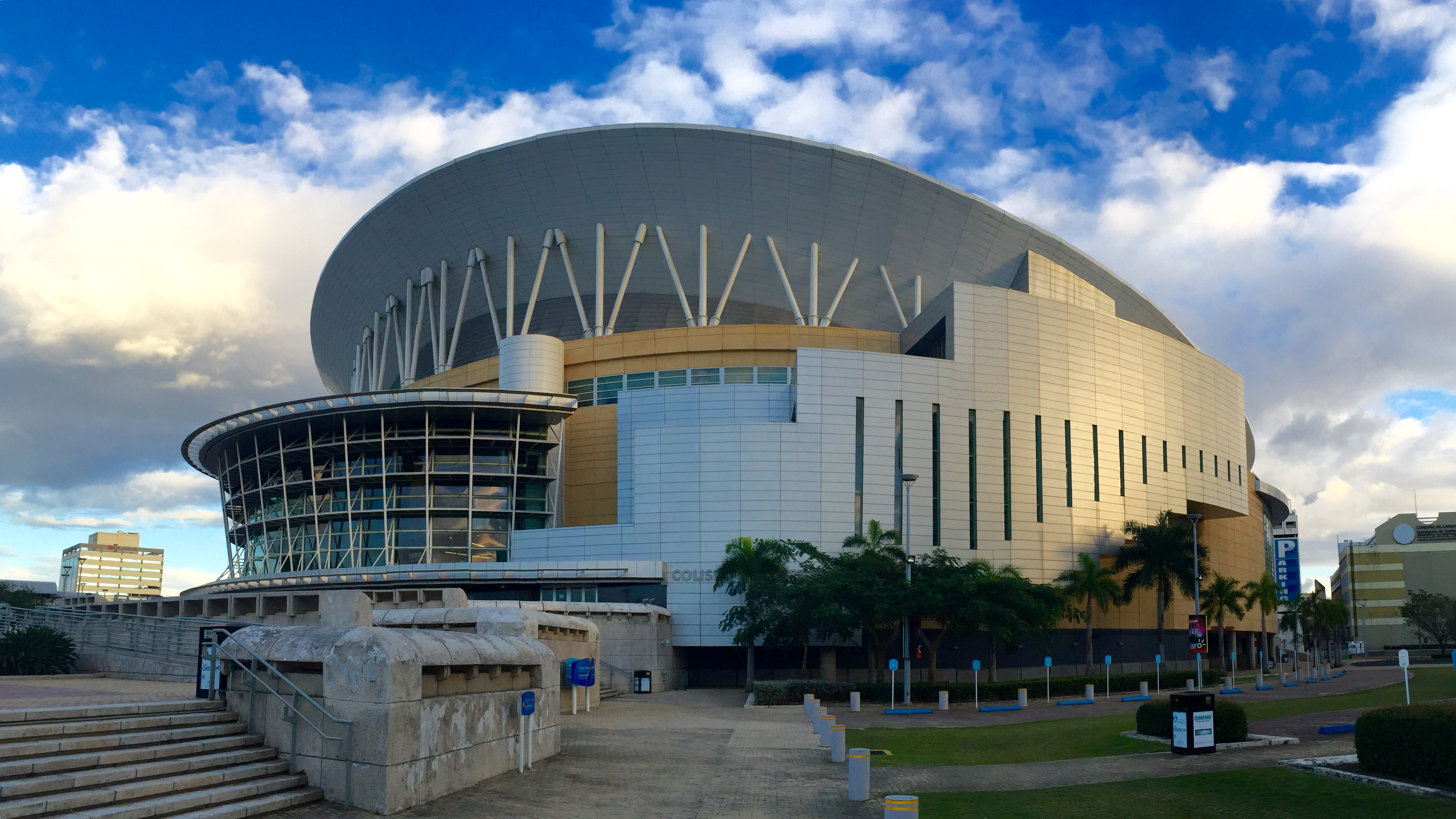 Coliseum of Puerto Rico @ sunset